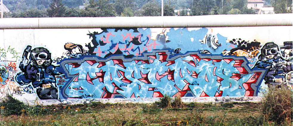 origin Eastside Gallery before the wall breaked down